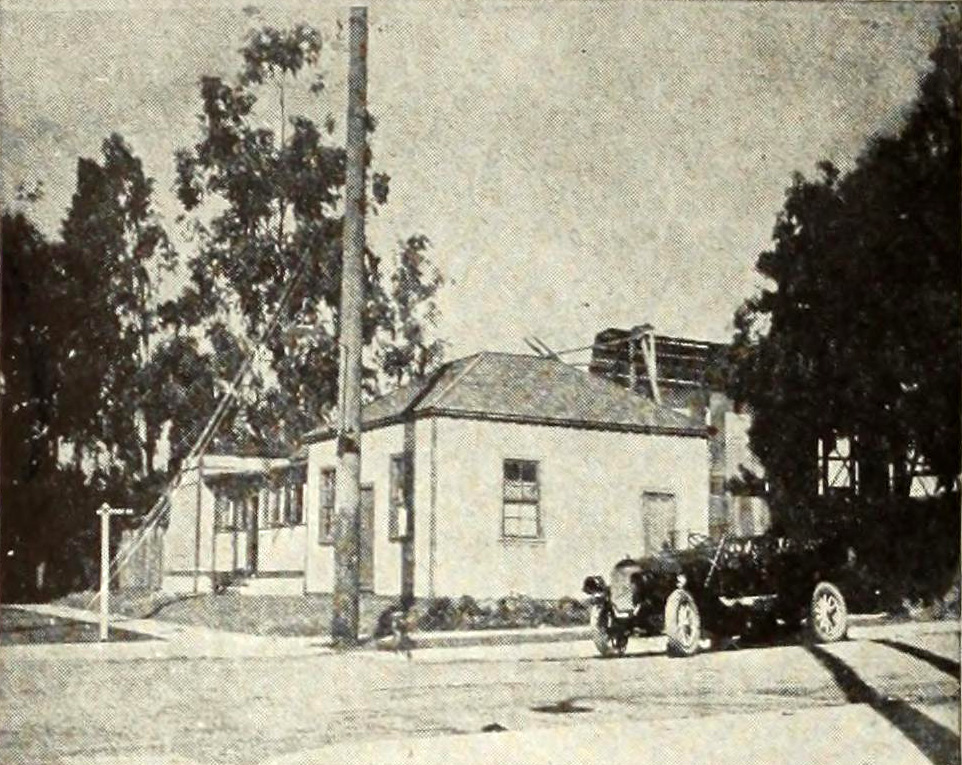 First Hollywood studio built by Dave Horsley for the Nestor Company at the corner of Gower Street and Sunset Boulevard.